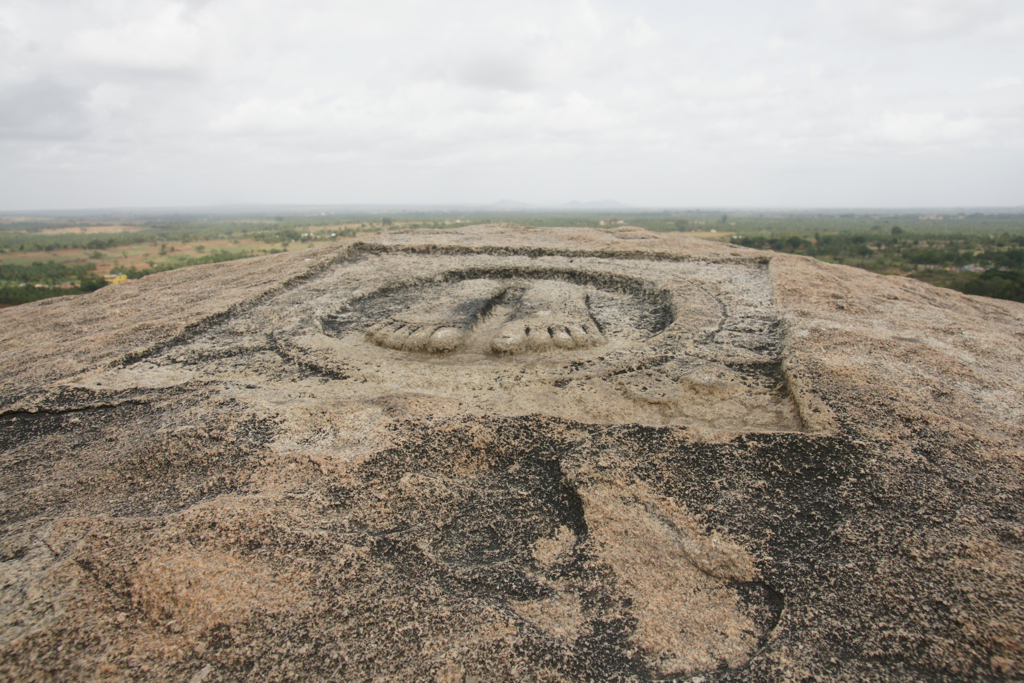 The supposed footprints of Chandragupta Maurya atop Chandragiri at Shravanabelagola in Karnataka, India.